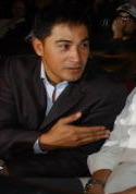 Cropped from a U.S embassy photo of Cesar Montano